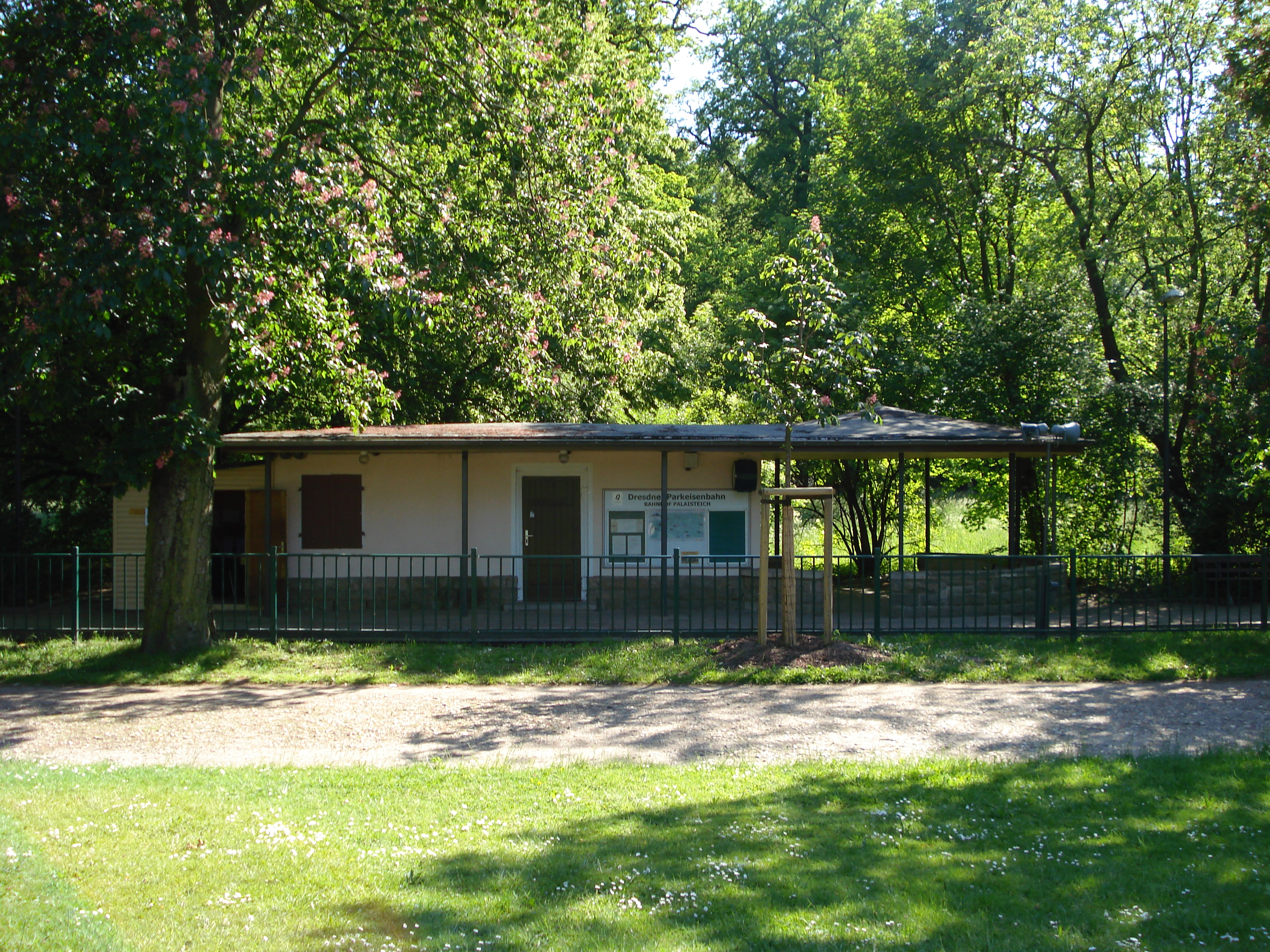 The area of the City Park Dresden (Großer Garten Dresden)